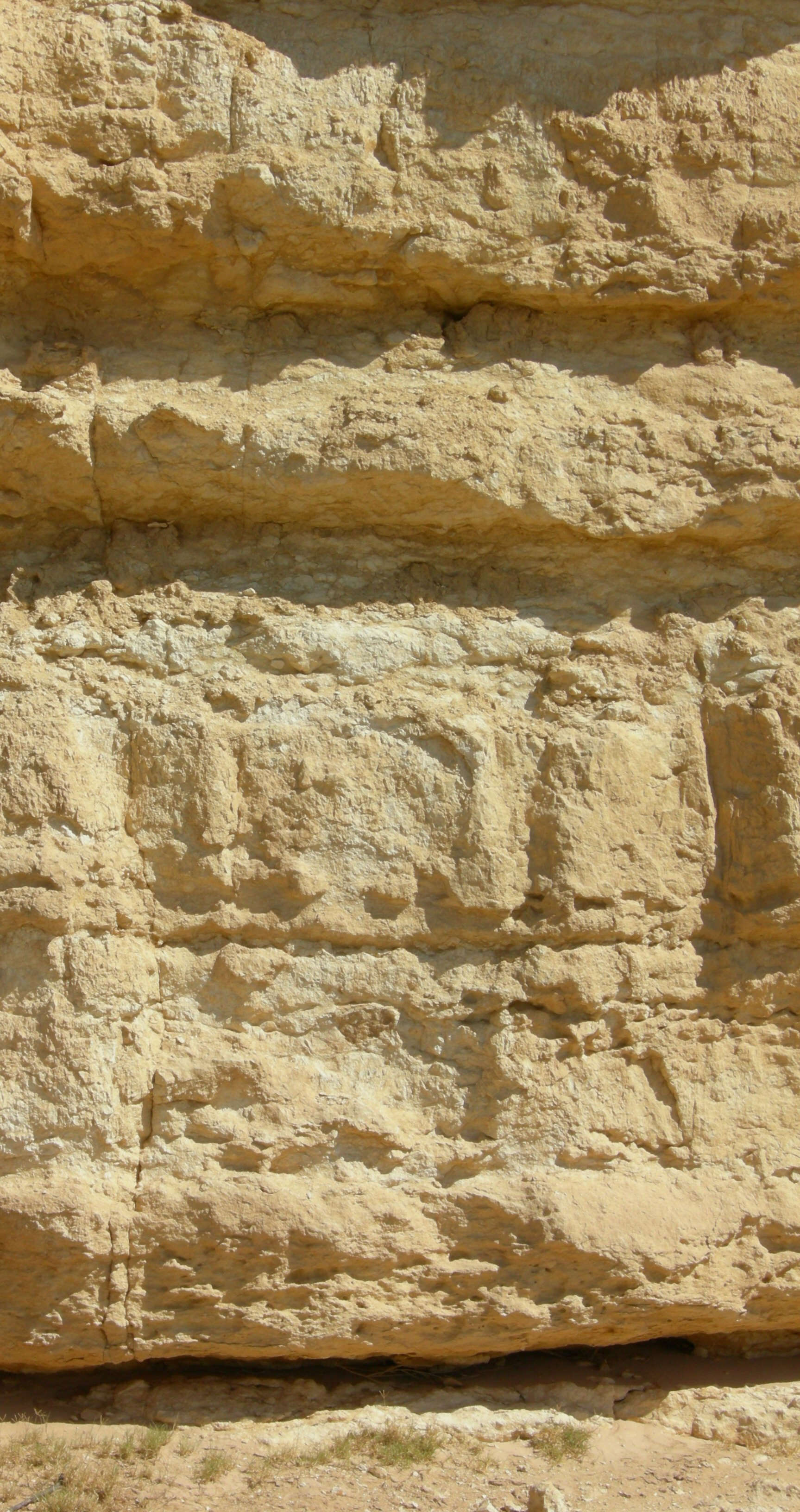 Photograph taken by Mark A. Wilson (Department of Geology, The College of Wooster). [1]